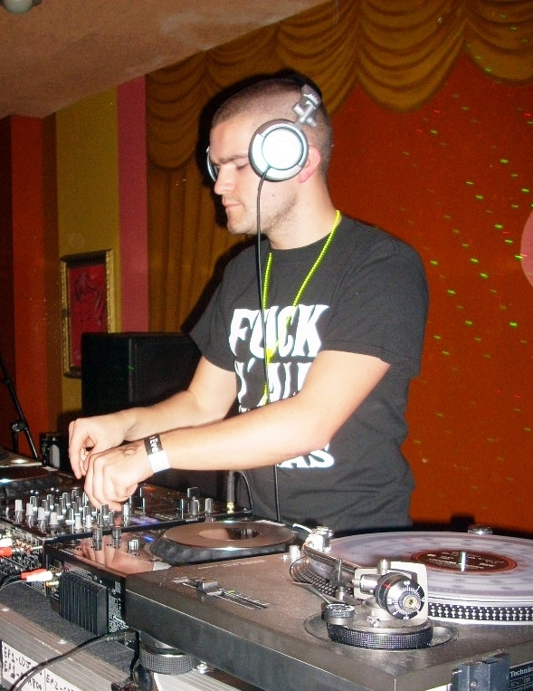 Dj Plastician in Austin, Texas 2009